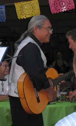 Philip Haozous (Chiricahua Apache/Diné/Mestizo), sculptor, son of Allan Houser, at the Houser Compound, south of Santa Fe, New Mexico